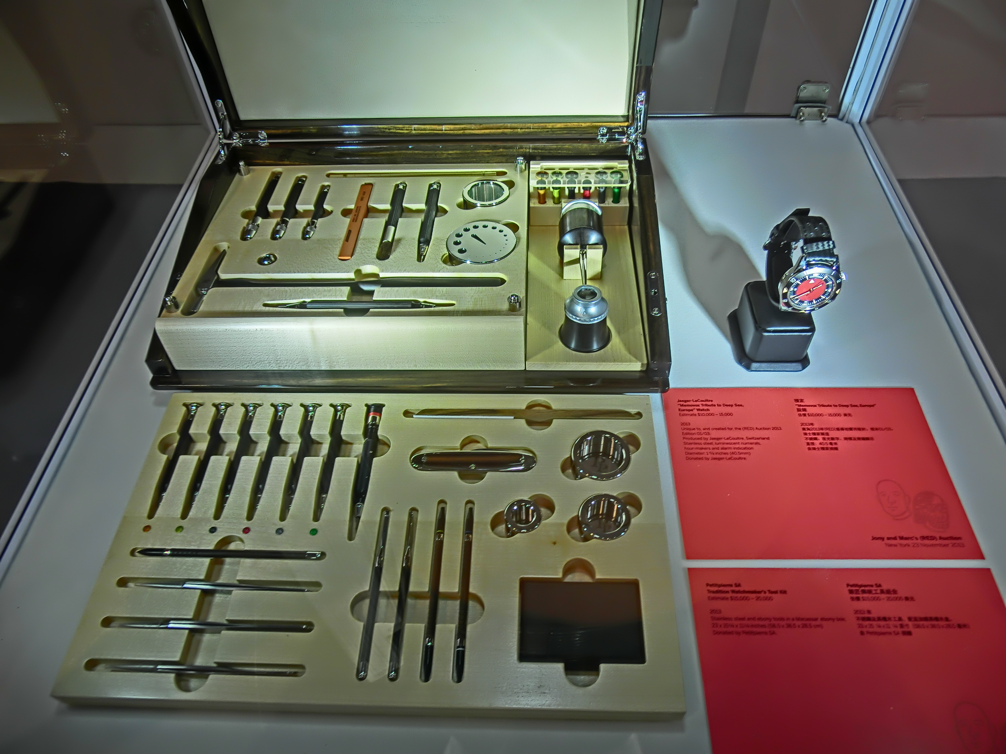 蘇富比拍賣前 預展, Sotheby's Auction preview exhibition in October, 2013 Hong Kong, China